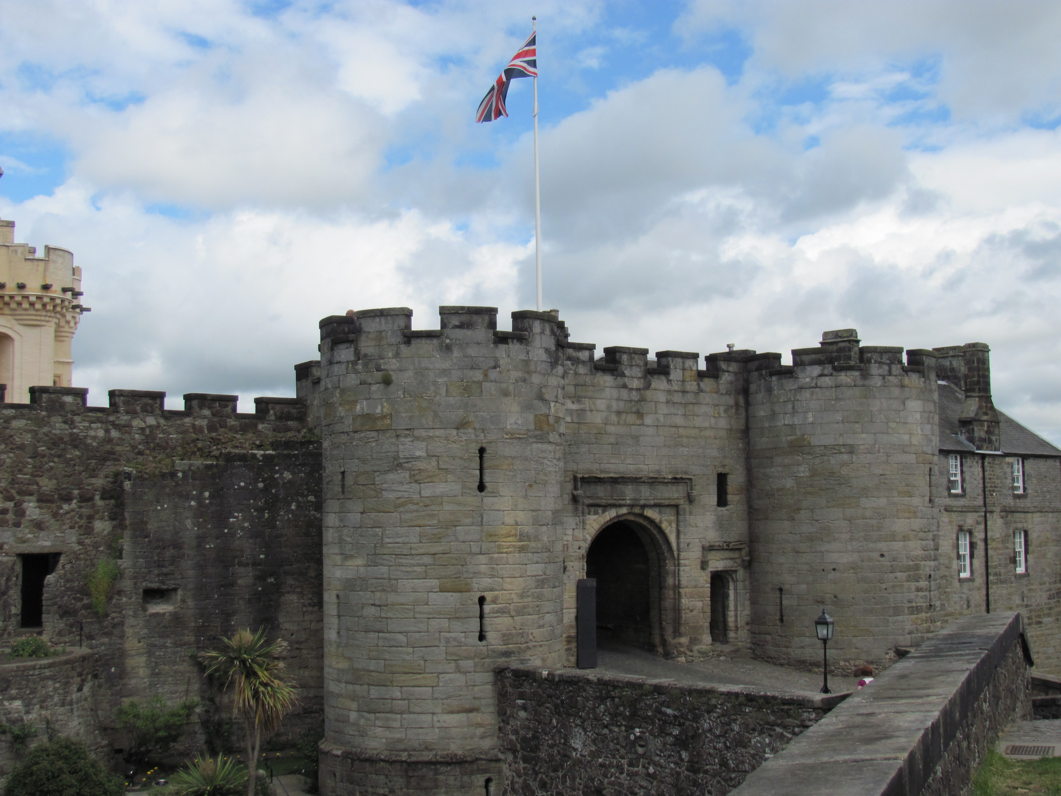 The Main Gate of Stirling Castle, Stirling, Scotland.